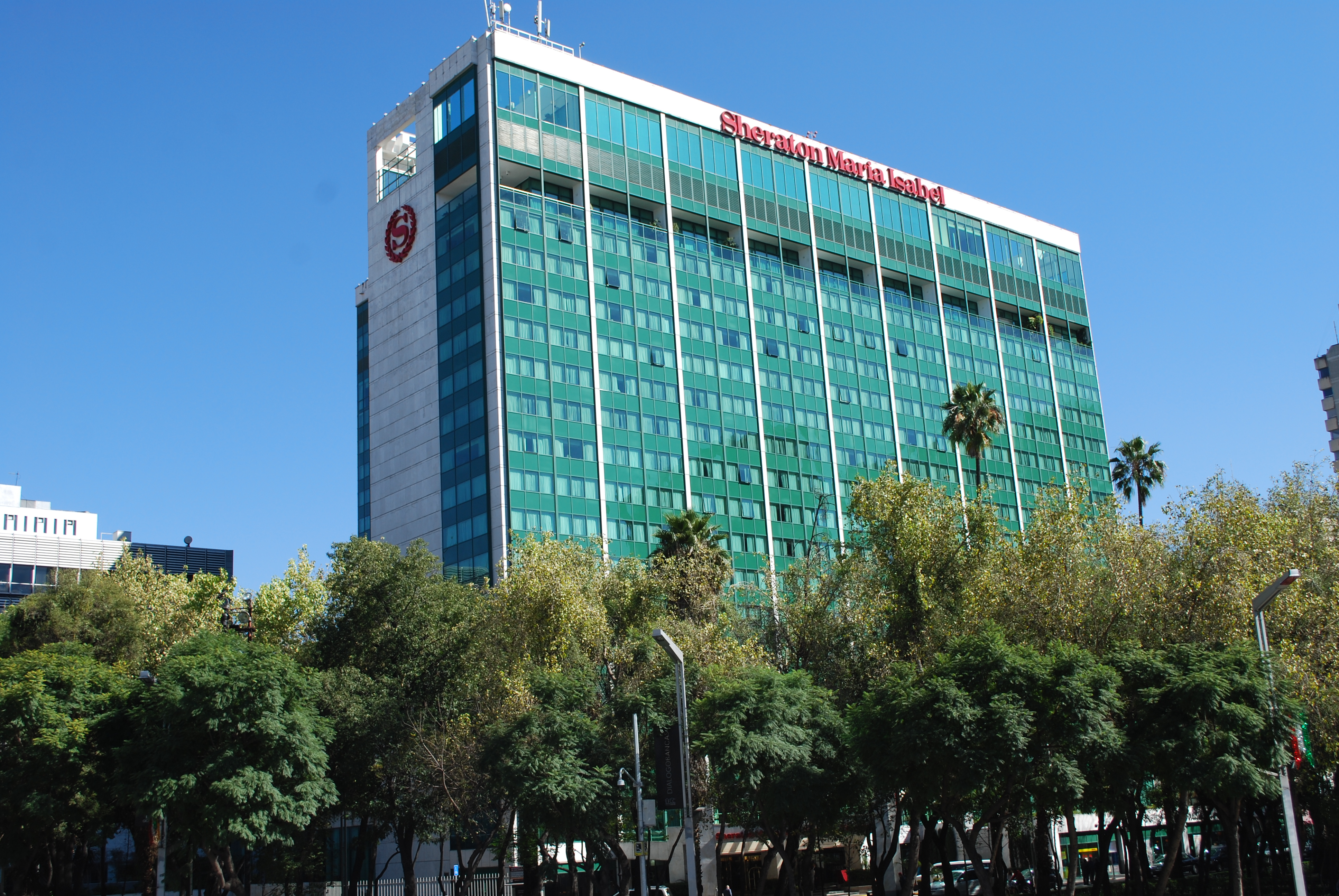 Sheraton Maria Isabel Hotel on Paseo de la Reforma in Colonia Cuauhtemoc, Mexico City